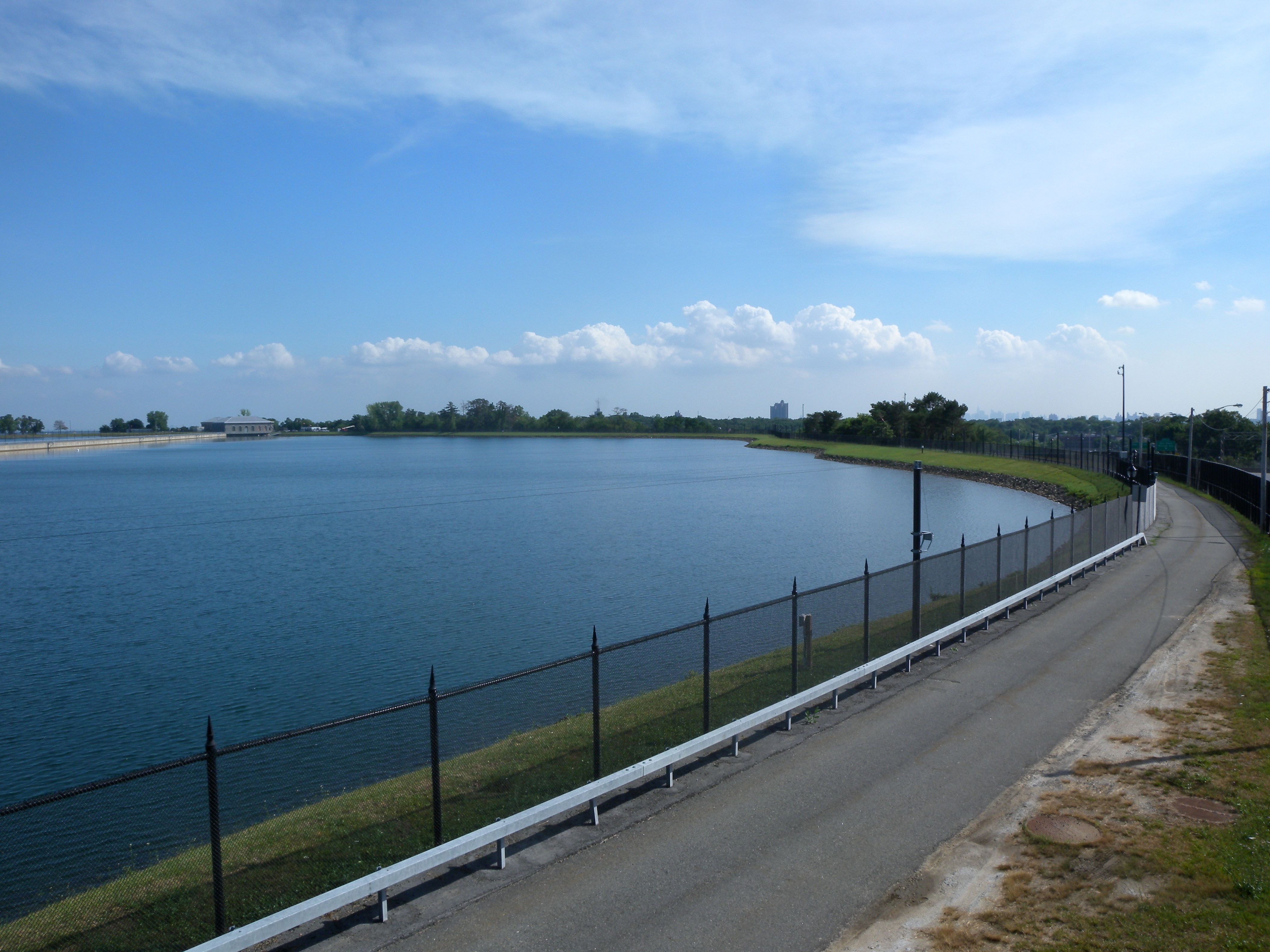 Looking south from pedestrian overpass at western wall of reservoir on a sunny afternoon.